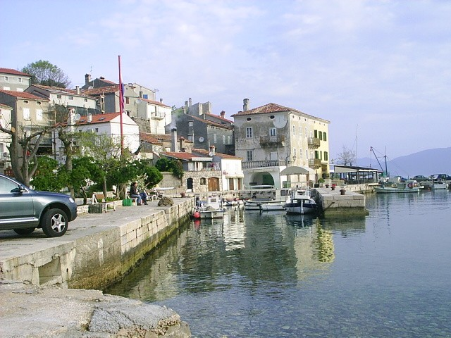 Valun village on the Cres Island, Croatia